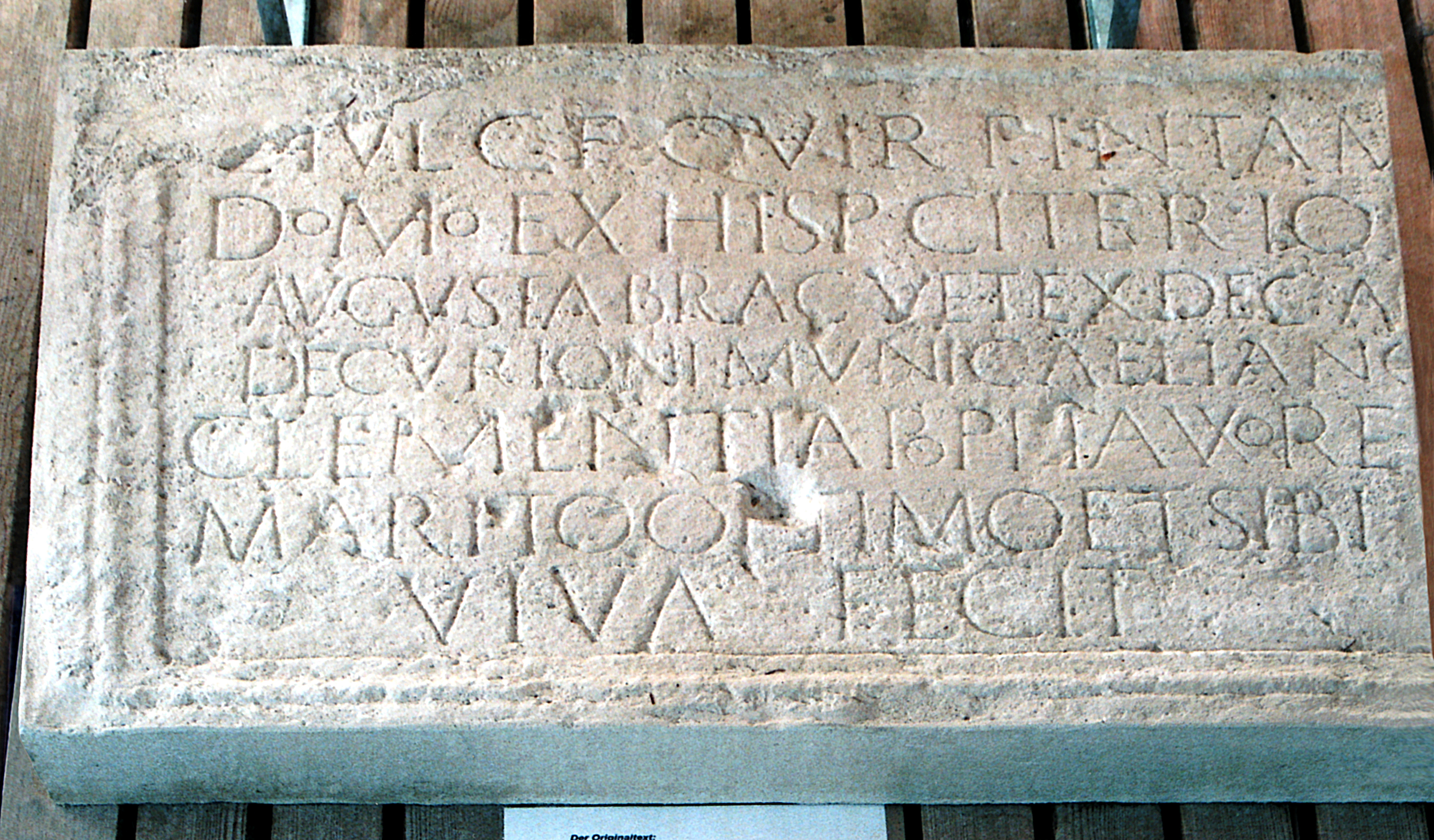 Roman Villa rustica near Leutstetten (Stadt Starnberg, Upper Bavaria, Germany). Replica of the Roman tombstone from the church of Leutstetten.